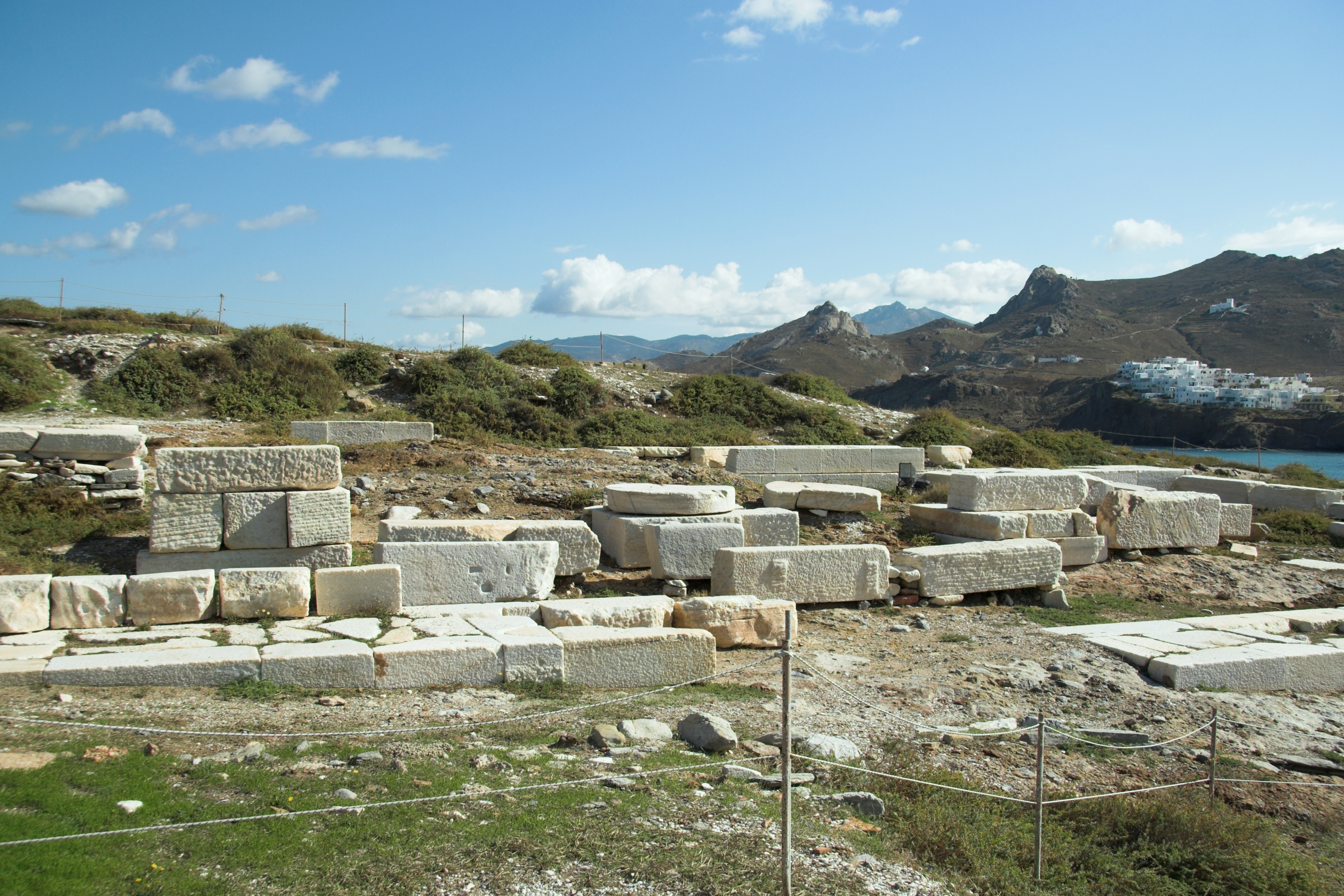 Remains of Apollo temple on the islet Palatia.